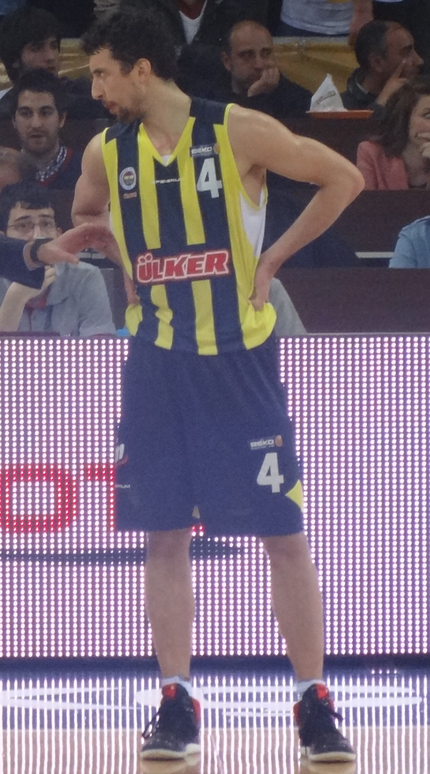 Galatasaray Fenerbahçe match